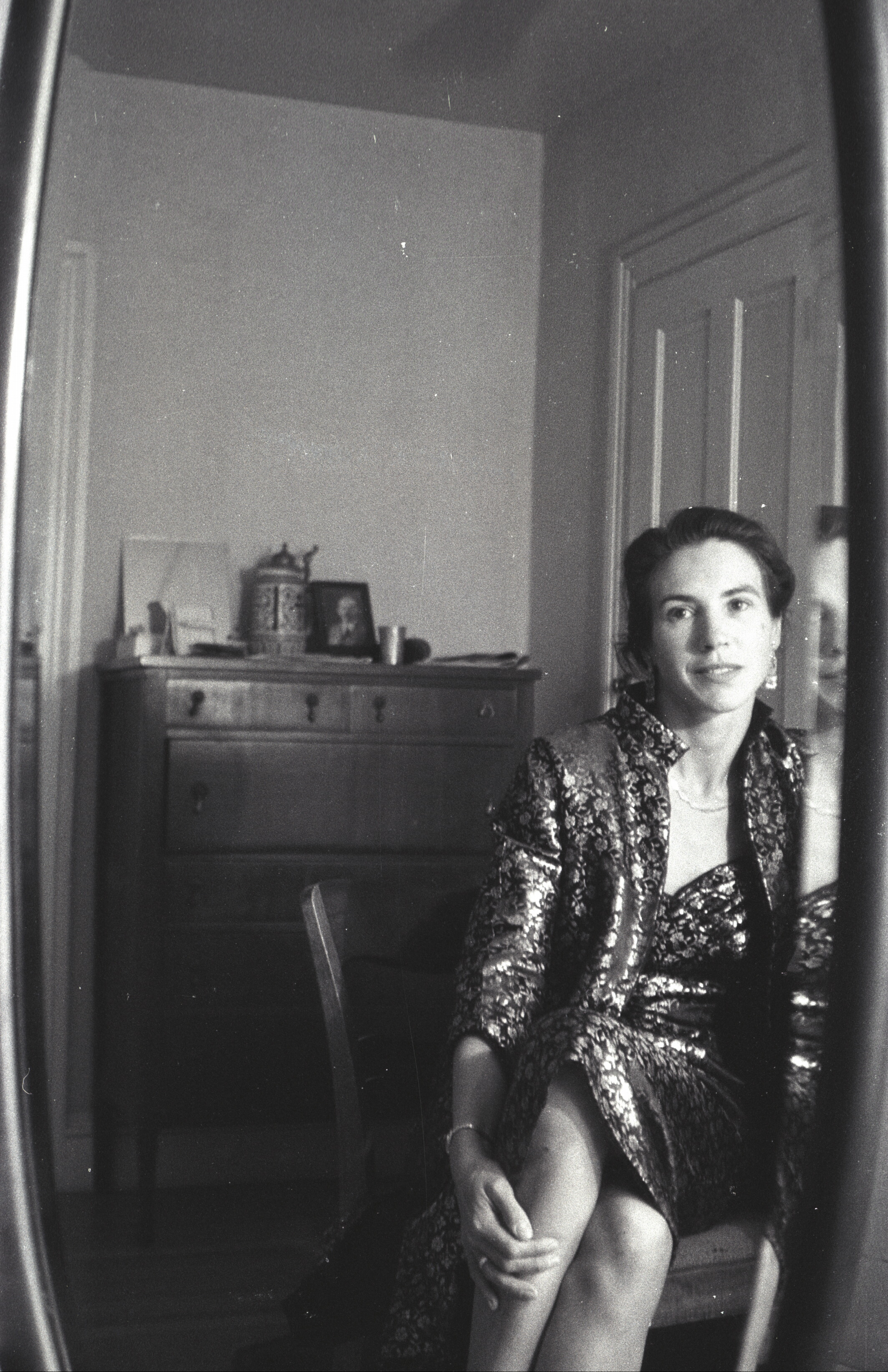 Self-portrait of mathematician Verena Huber-Dyson